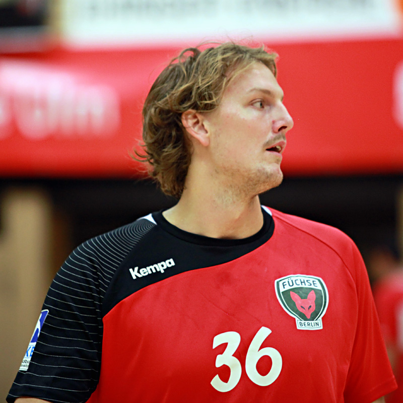 Jesper Nielsen, on August 17th, 2012 in Ehingen (Germany), during the Sparkassen Cup (formerly known as Schlecker Cup).